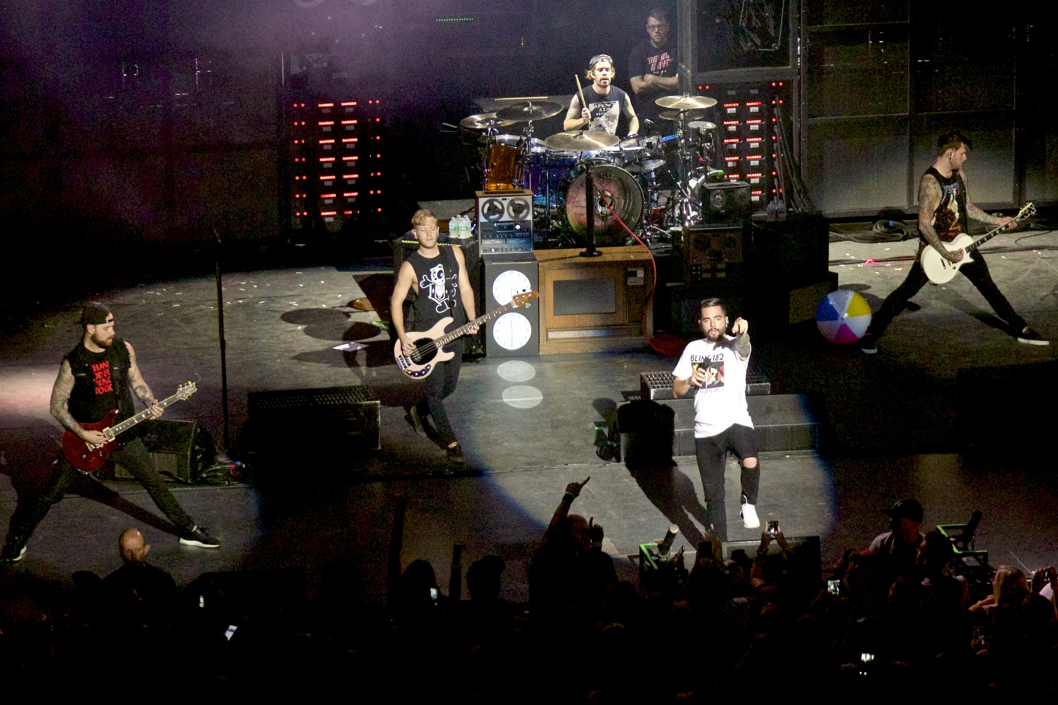 A Day to Remember performing at the Saratoga Performing Arts Center in Saratoga Springs, NY on September 4, 2016.